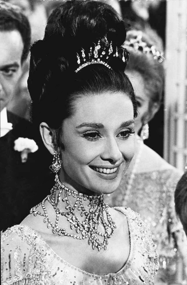 Publicity photo of Audrey Hepburn for My Fair Lady.